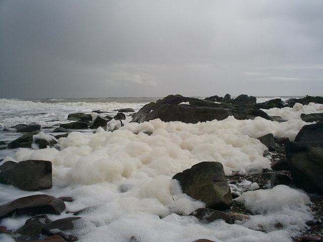 Foaming at the teeth Foam build up during storm at St Bees.